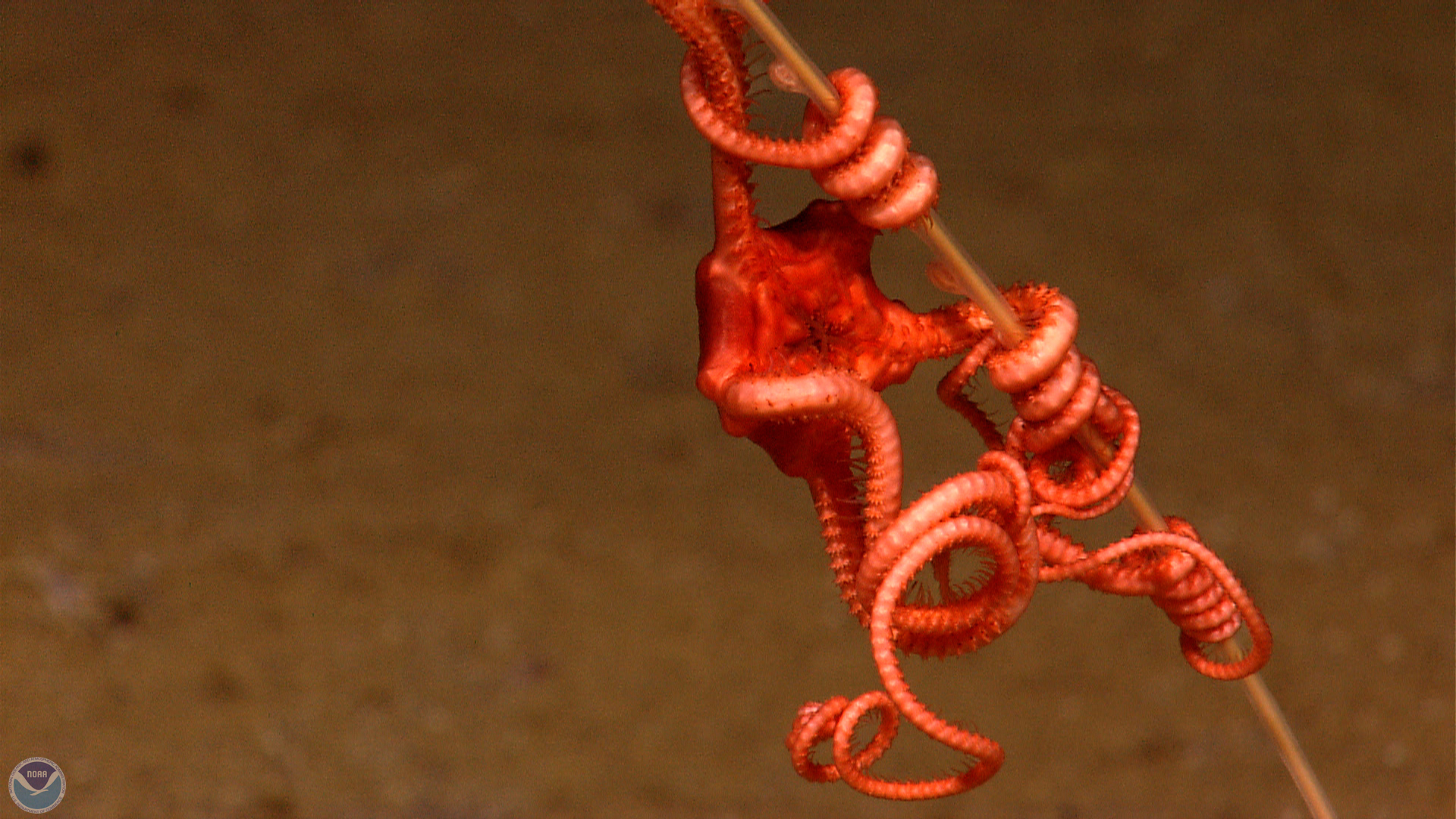 A rarely seen pink brittlestar (Euryalida) on an octocoral (soft coral). Image captured by the Little Hercules remotely operated vehicle at 1,517 meters depth on a site referred to as 'Baruna Jaya IV - Site 1' on August 1, 2010, during the NOAA Okeanos Explorer Indonesia-USA Deep-Sea Exploration of the Sangihe Talaud Region. (Image source: )